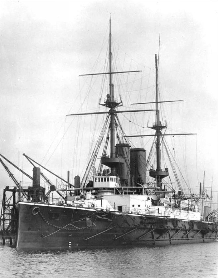 HMS Formidable, a battleship of the British Royal Navy, launched 1898, sunk 1915 during the First World War by a German U-Boat.